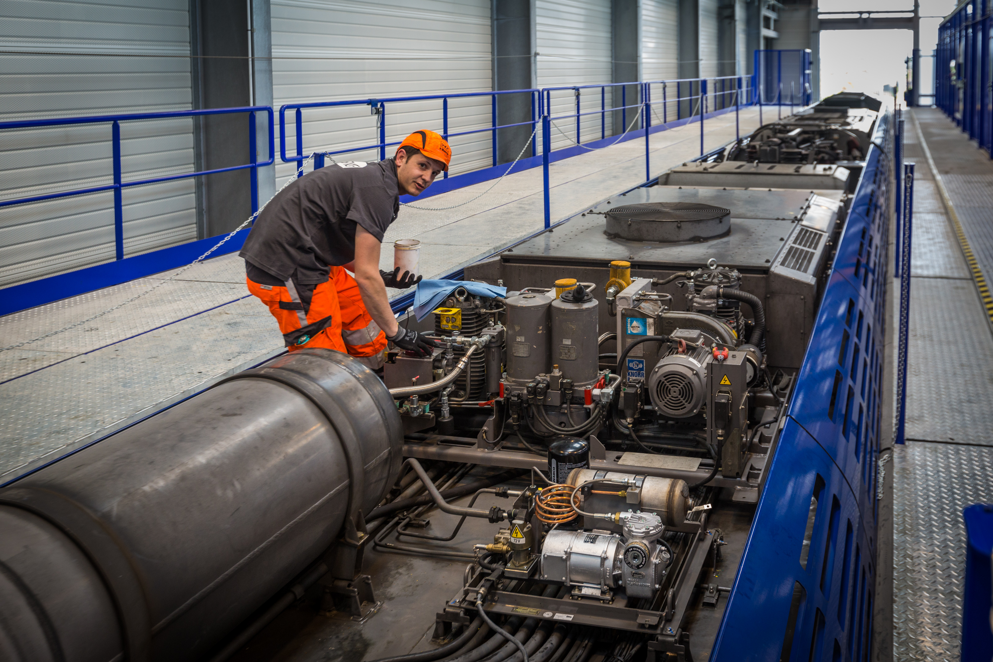 Technicentre TER Alsace Mulhouse Nord 28 mai 2015